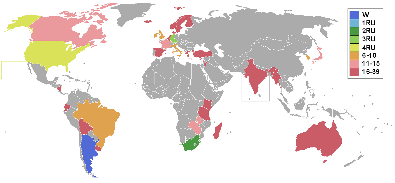 results map